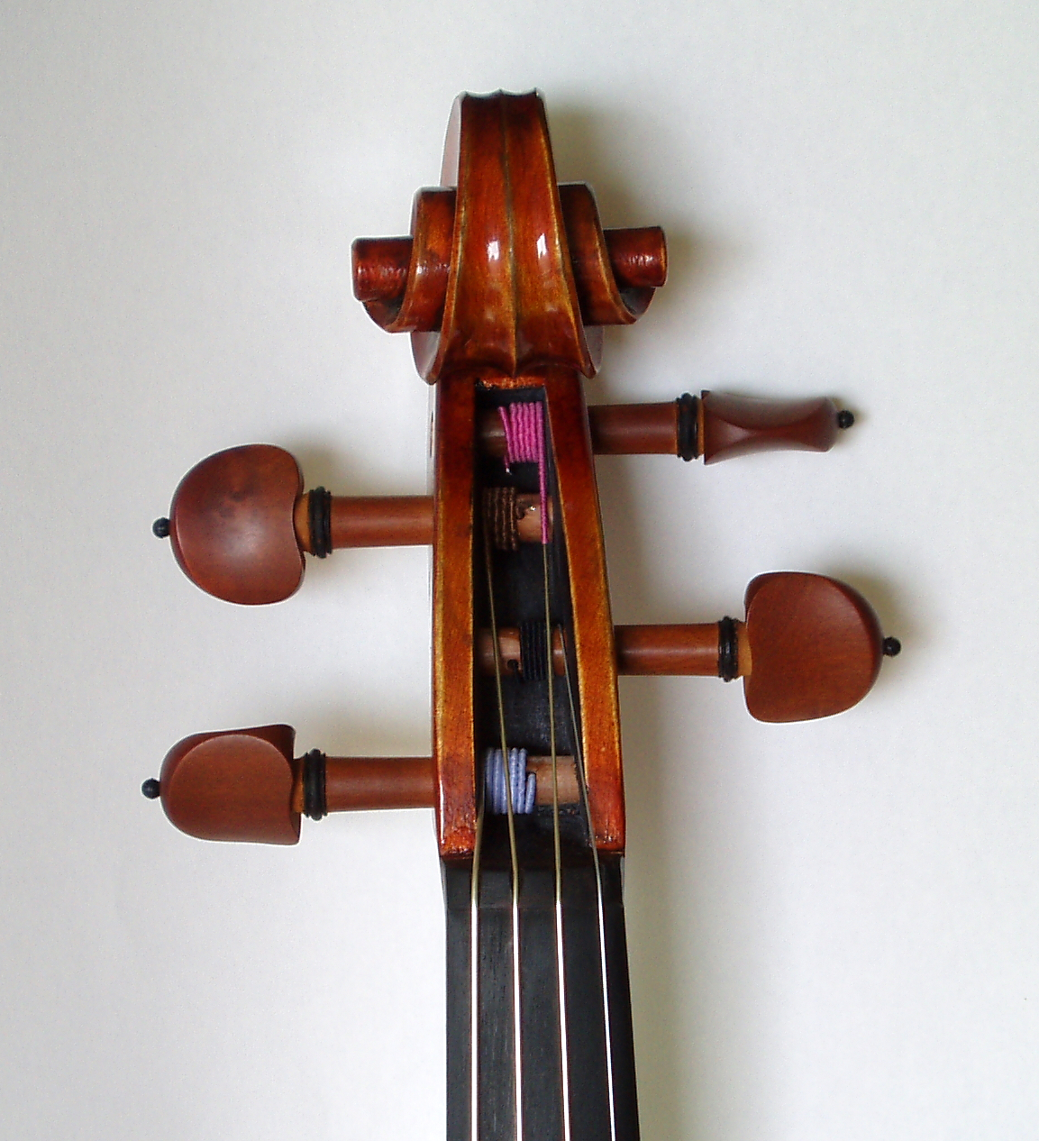 Pegs of a viola